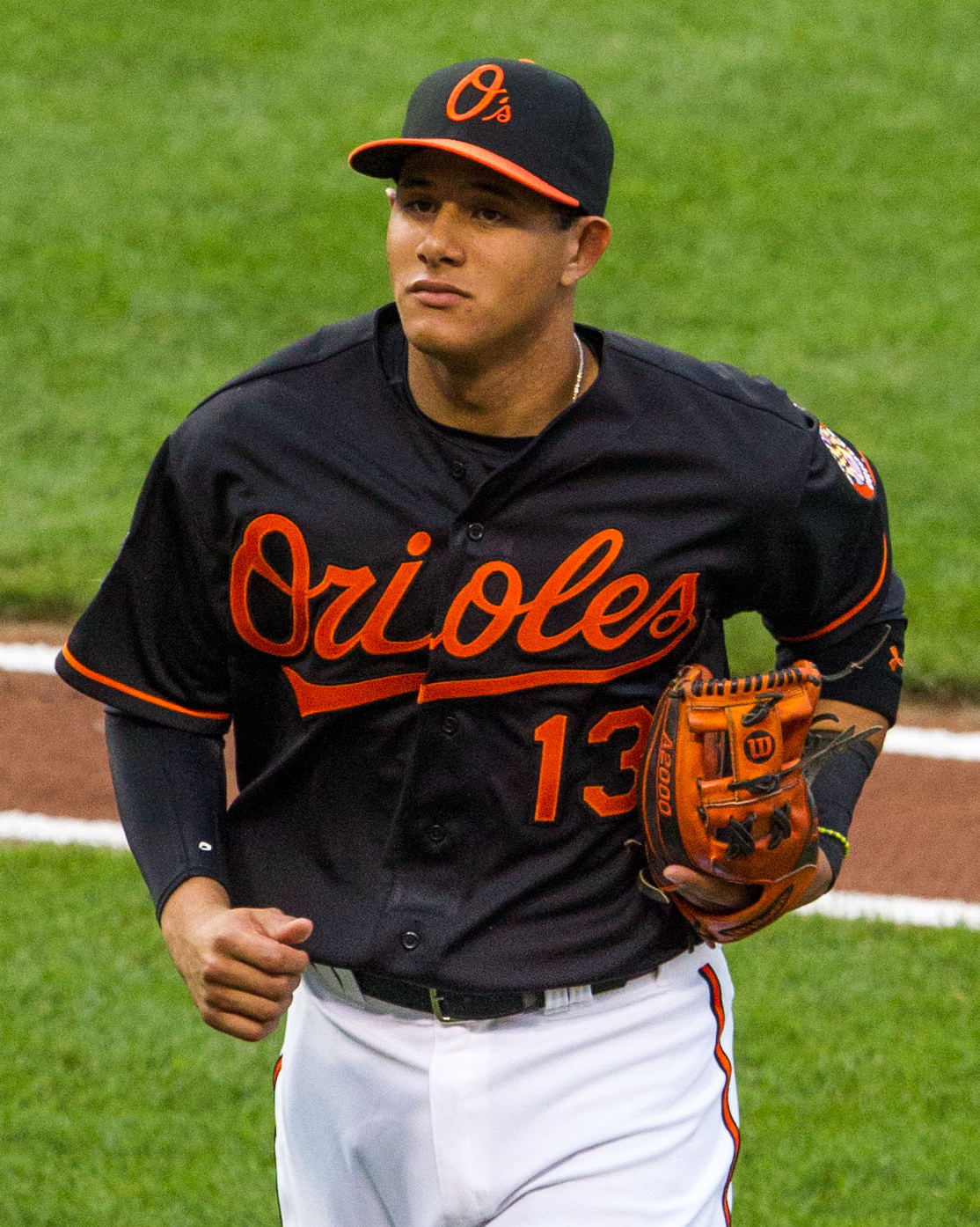 Orioles infielder Machado – Royals at Orioles August 10, 2012